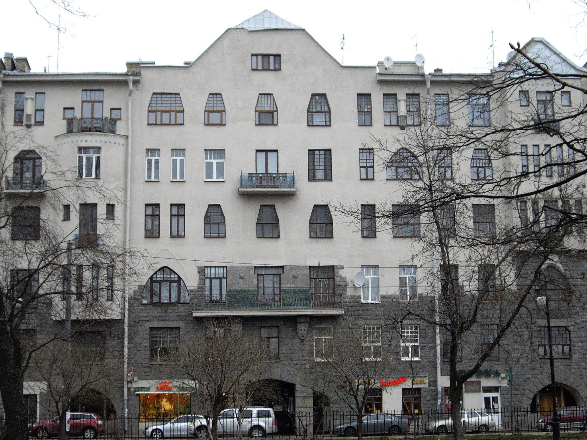 23, Kronwerksky Prospekt (Saint-Petersburg)